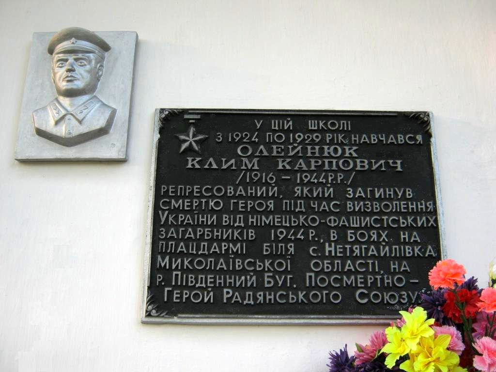 Memorial Oleynyuk